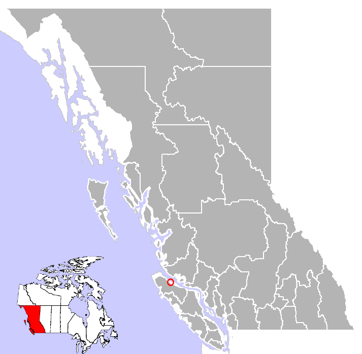 Sointula, British Columbia location.